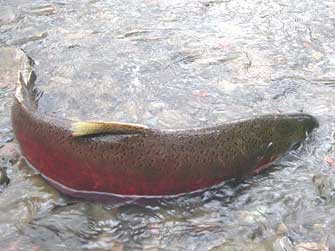 An adult male Coho Salmon spawning in shallow stream Pt. Reyes National Seashore.